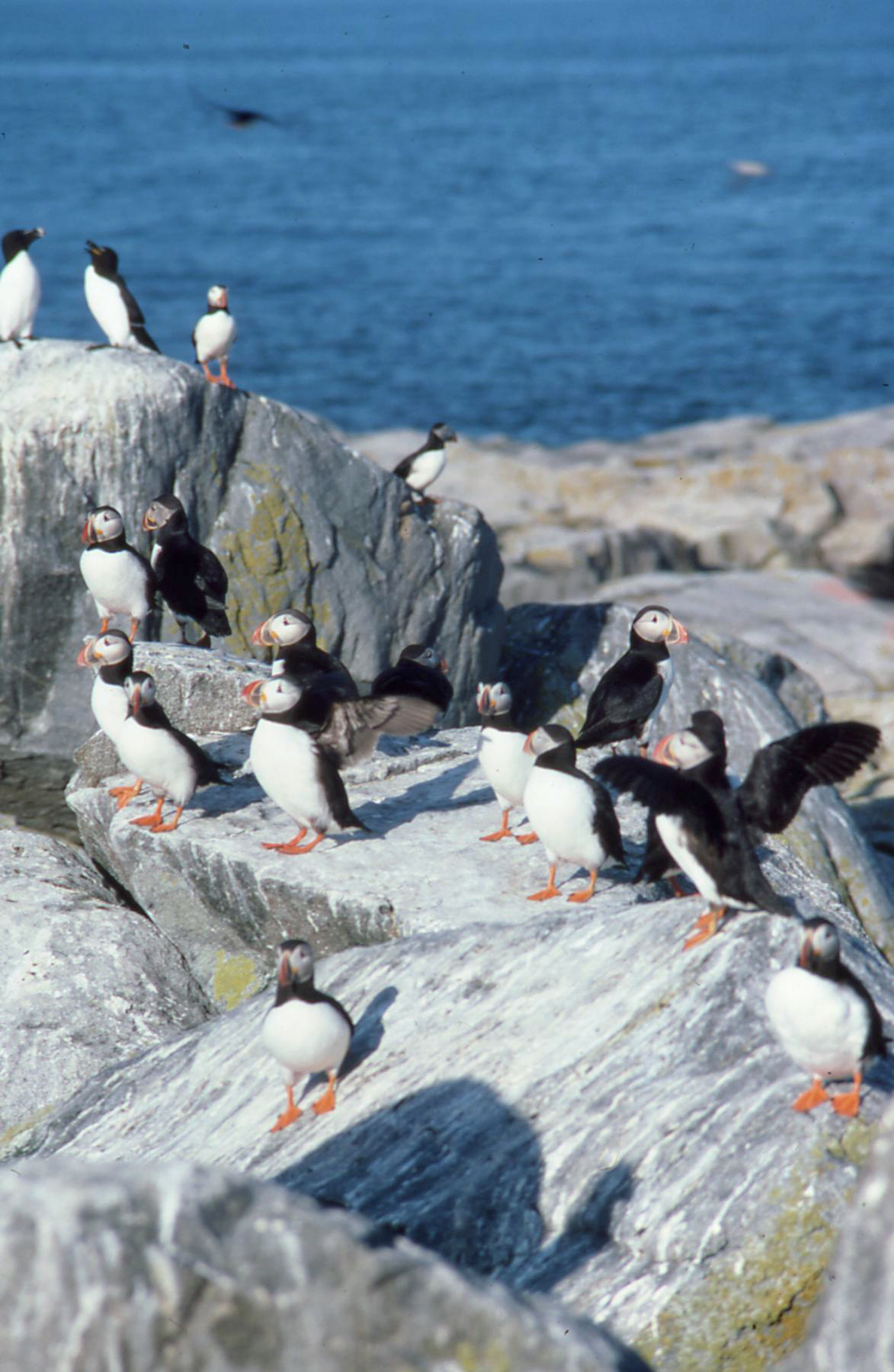 Maine Coastal Islands National Wildlife Refuge. Credit: USFWS